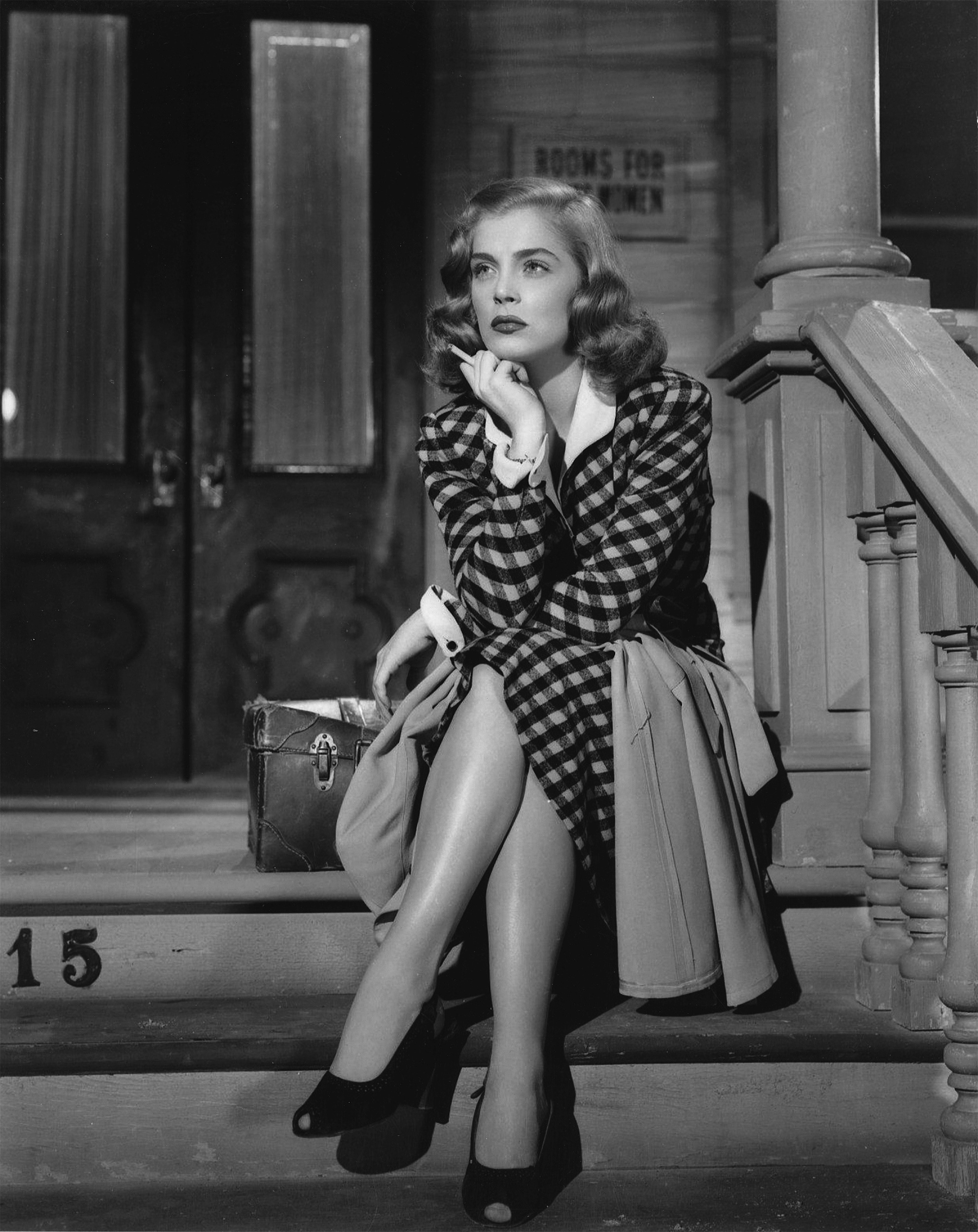 Publicity still of Lizabeth Scott in the 1946 film "The Strange Love of Martha Ivers" Other information Film listed in Wiki article on films in public domain